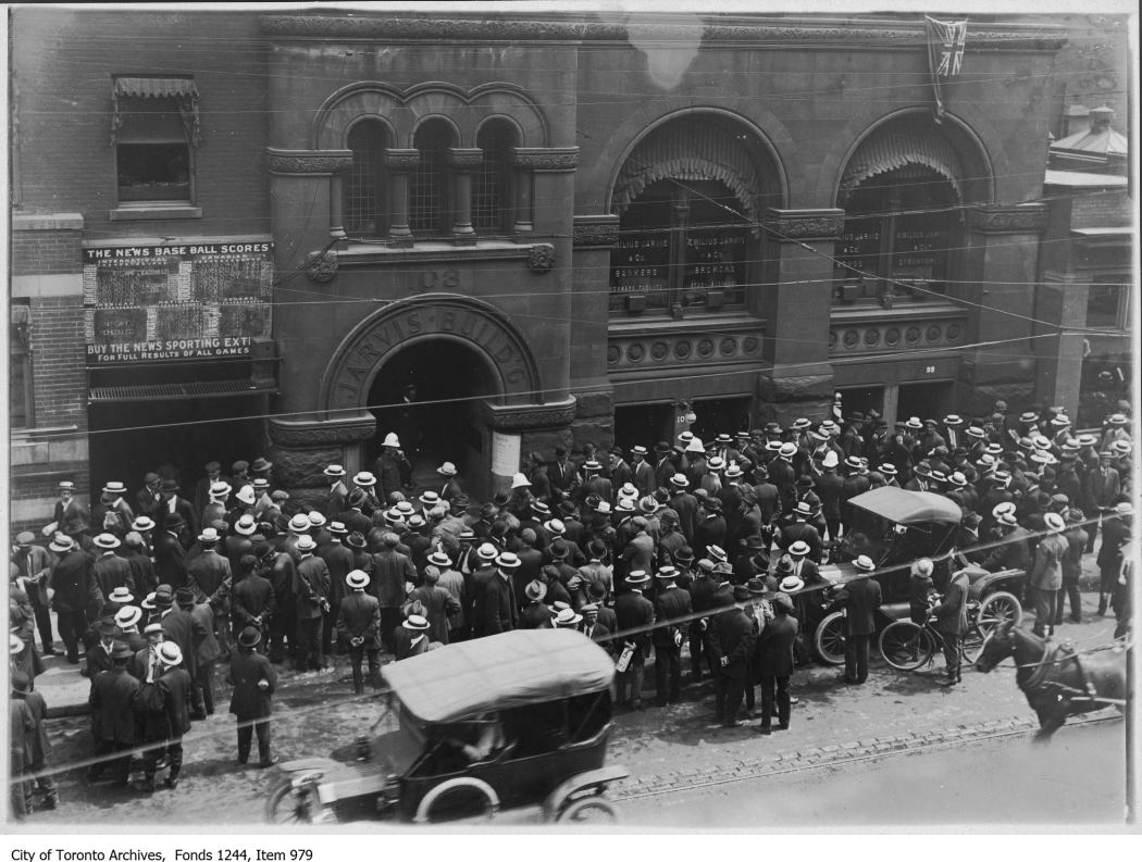 Aemilius Jarvis recruited ships & men for Canada's WWI effort. In the 1st year of the war he established a naval recruitment centre in his Toronto office.